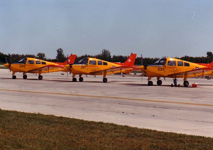 CT-134As from 3 Canadian Forces Flying Training School at CFB Portage la Prairie, Manitoba, 1982. I took this photo of Beechcraft CT134A Musketeer IIs at CFB Portage la Prairie in 1982